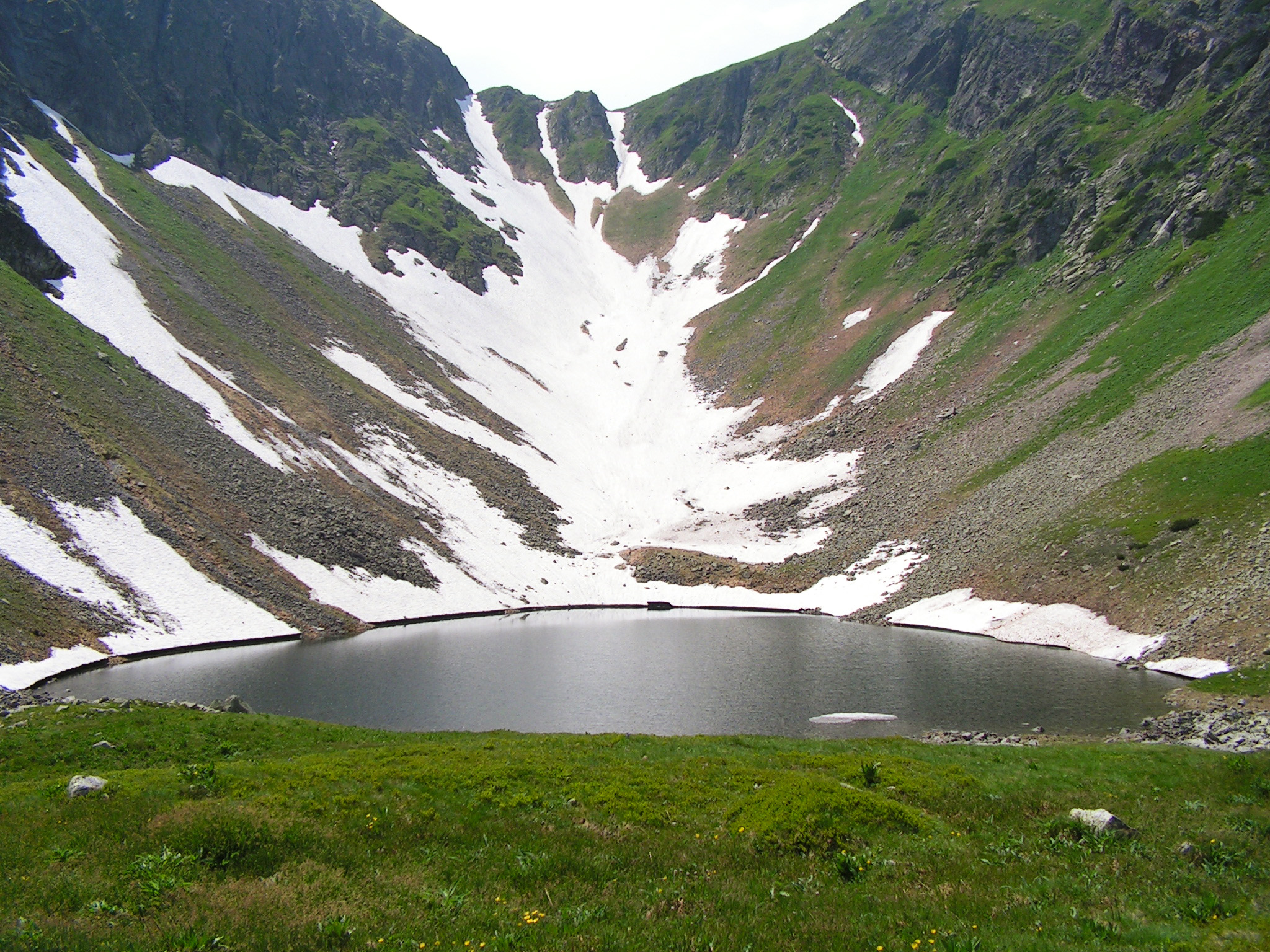 Zelené Javorové pleso and Sedlo nad Zeleným